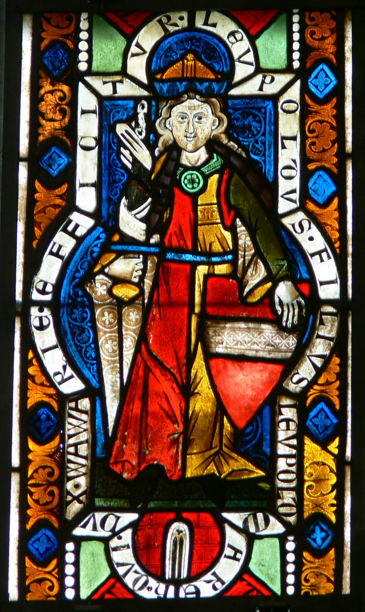 Heiligenkreuz abbey ( Lower Austria ). Lavabo: Babenberg windows ( 1290s ), showing members of the house of Babenberg: Leopold IV, margrave of Austria and duke of Bavaria.